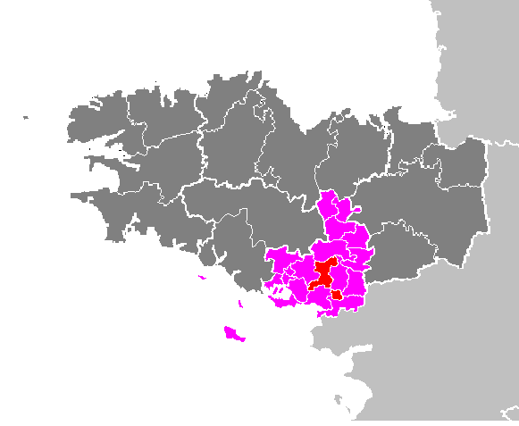 Maps of arrondissements and cantons of France: Arrondissement de Vannes - Canton de Questembert.PNG